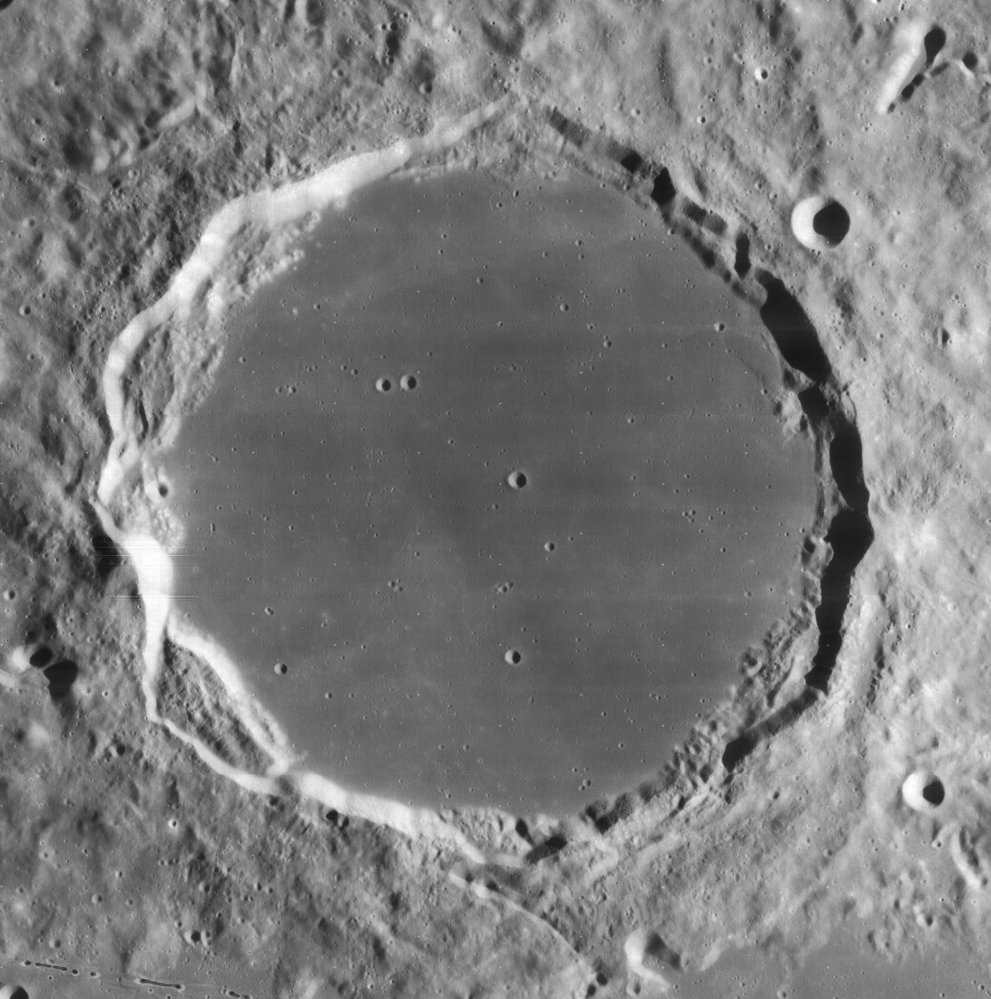 Crater Plato on the Moon.